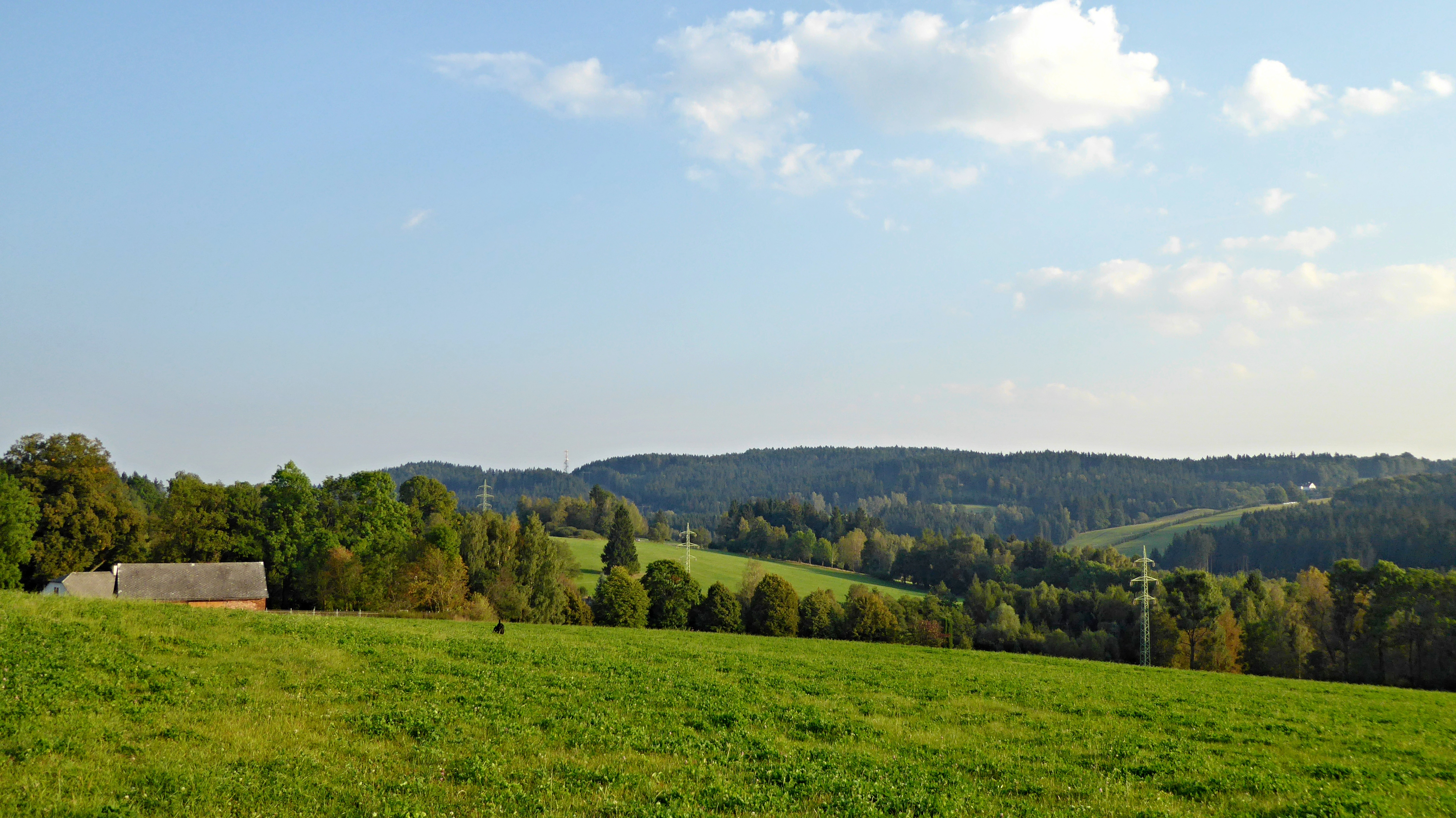 Landscape of the geologically significant Iron Mountains. The central part forms horopisically the highest "Kameničská" highlands with range of positions 275 to 737 m above sea level, a geomorphological district within the regional divide of the Czech Republic's georelief. The name of the rugged highland comes from the settlement locality "Kameničky" (part of the municipality "Trhová Kamenice"). In the deep valley flows the river "Chrudimka", which is the most important watercourse in the landscape area. Photo location: Czechia, Pardubice Region, part of municipality – villages Kameničky, "Kameničská" Highlands.